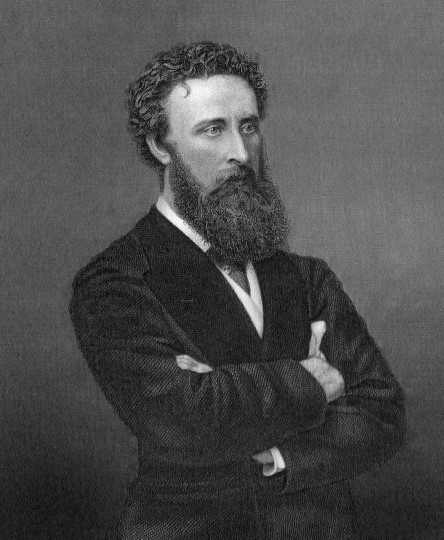 Robert Bulwer-Lytton, 1st Earl of Lytton Image manipulated using The GIMP.